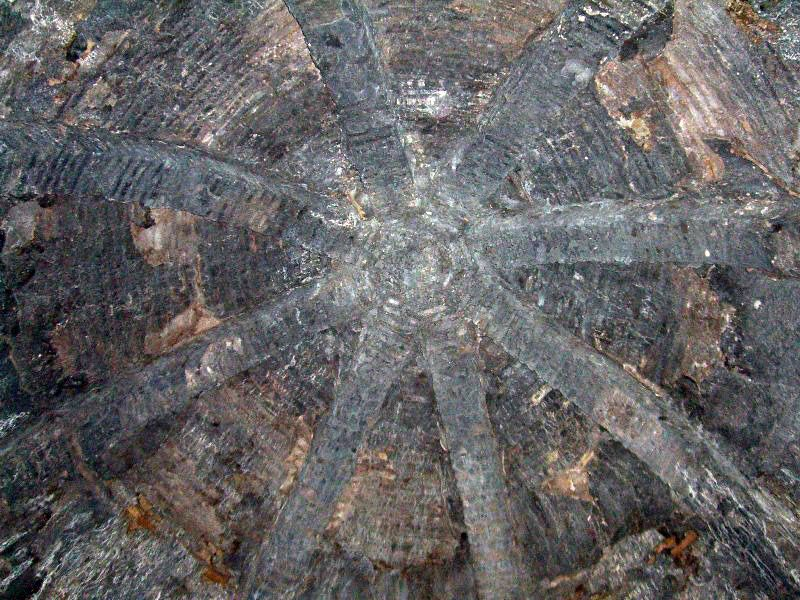 boveda torreon